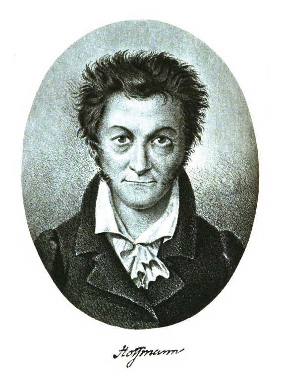 Selbstportrait E.T.A. Hoffmanns